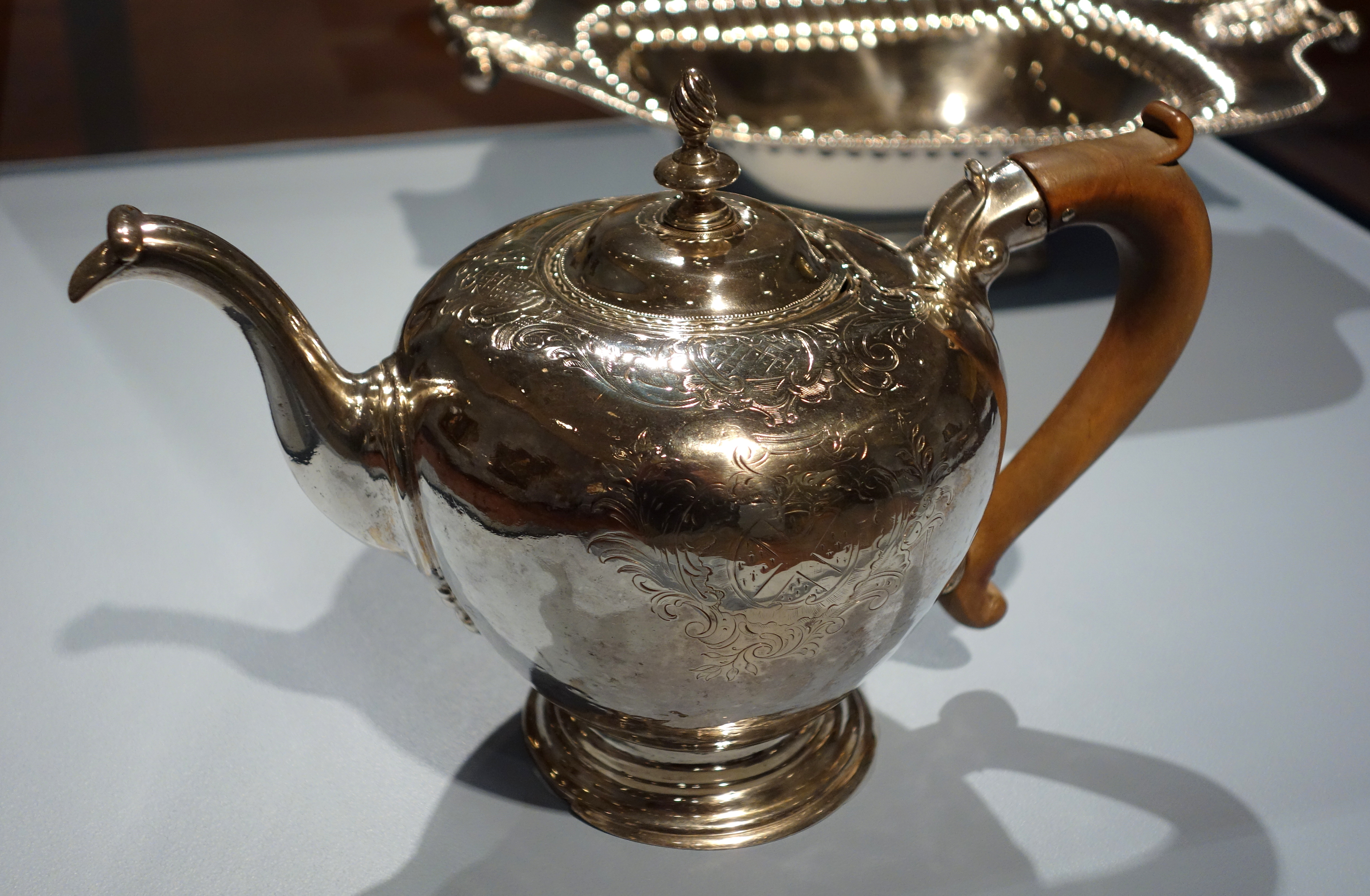 Exhibit in the Cincinnati Art Museum, Cincinnati, Ohio, USA. This artwork is in the public domain because the artist died more than 70 years ago.